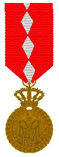 Knight in the Order of Cultural Merit Monaco 1952